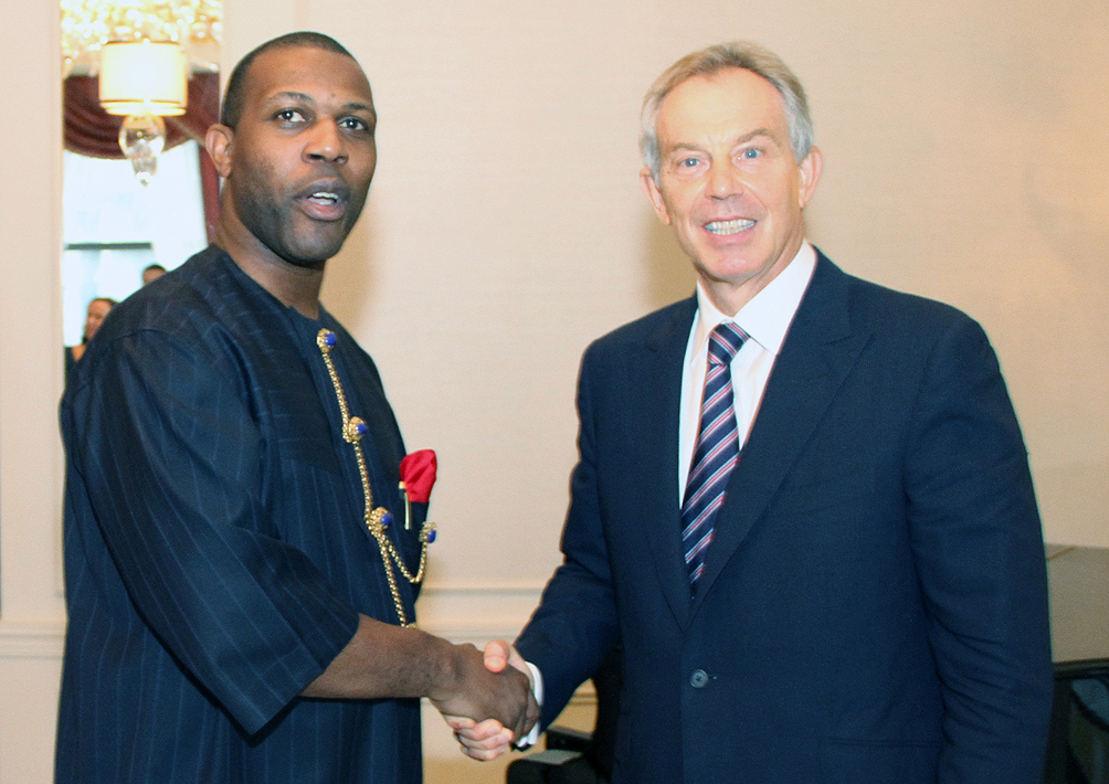 Princewill at Business Summit